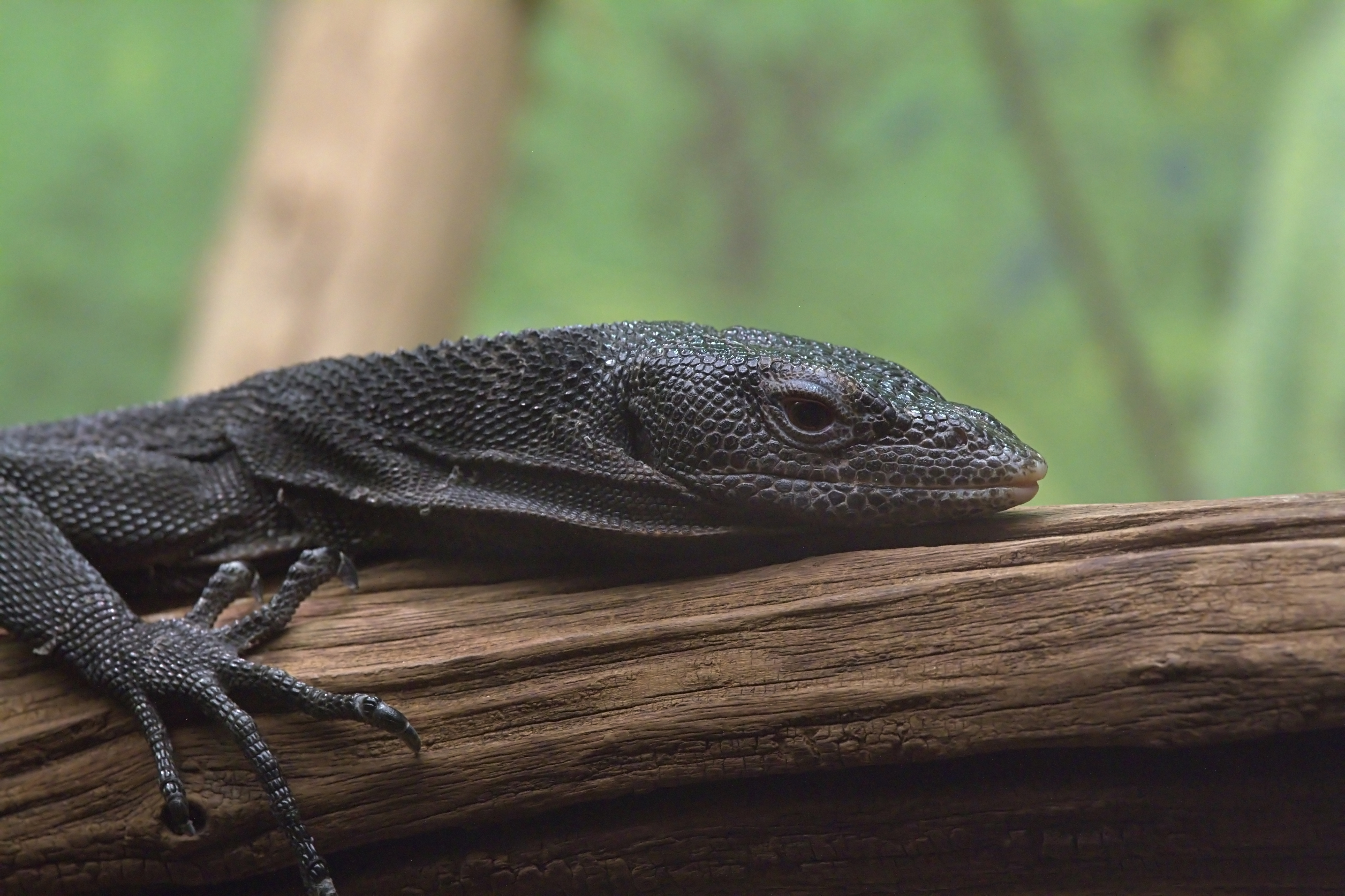 Black monitor - Varanus beccarii - taken at the Cincinnati Zoo.